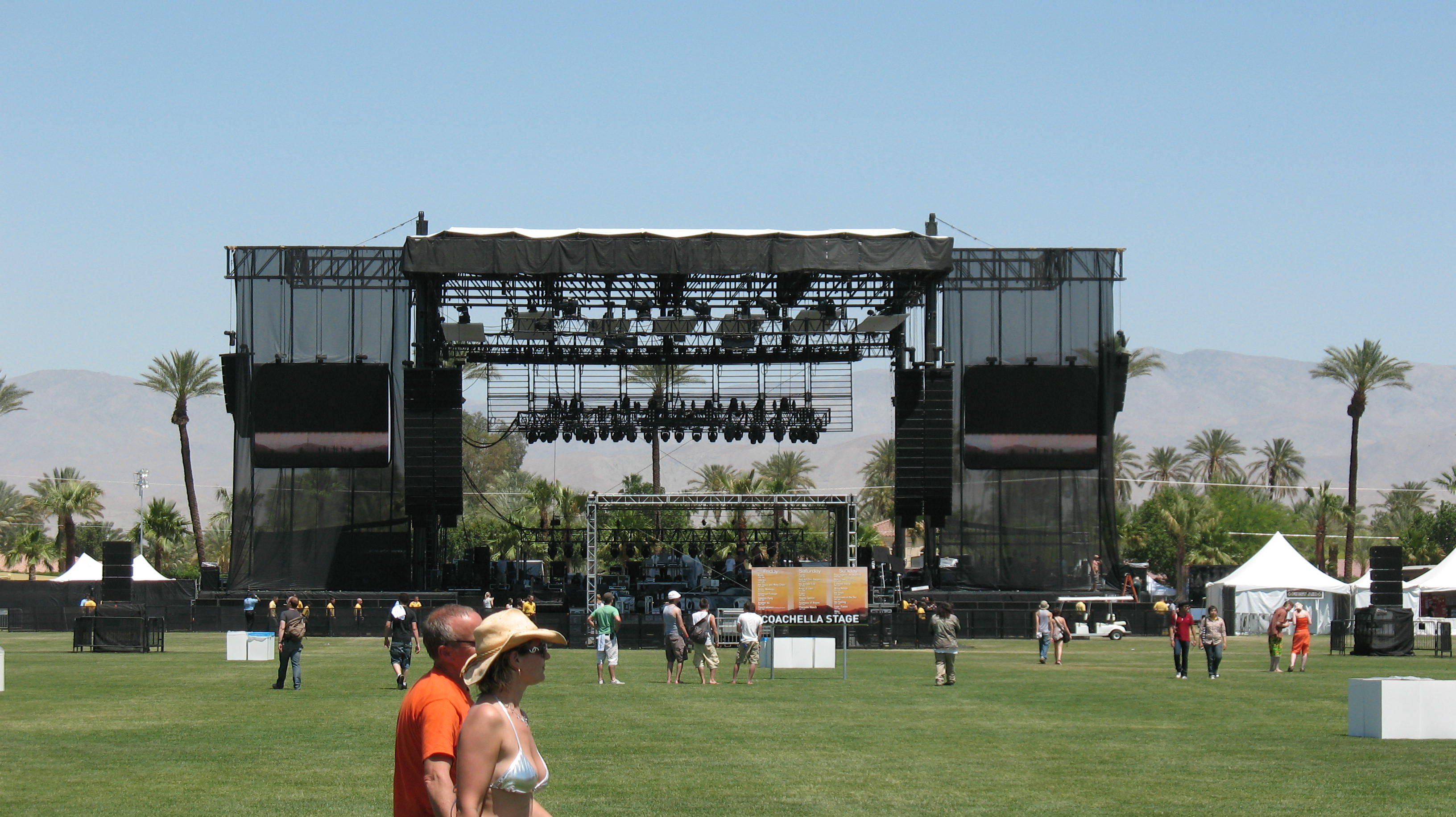 Coachella Music and Arts Festival 2007 Main Stage. Also served as the "Mane Stage" for the first annual Stagecoach Festival.